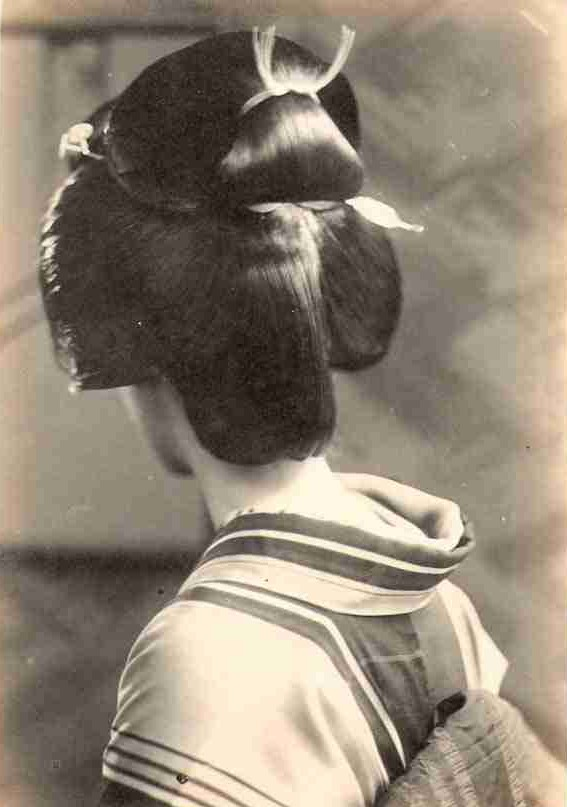 a traditional Japanese women's hairstyle, or "Nihongami"